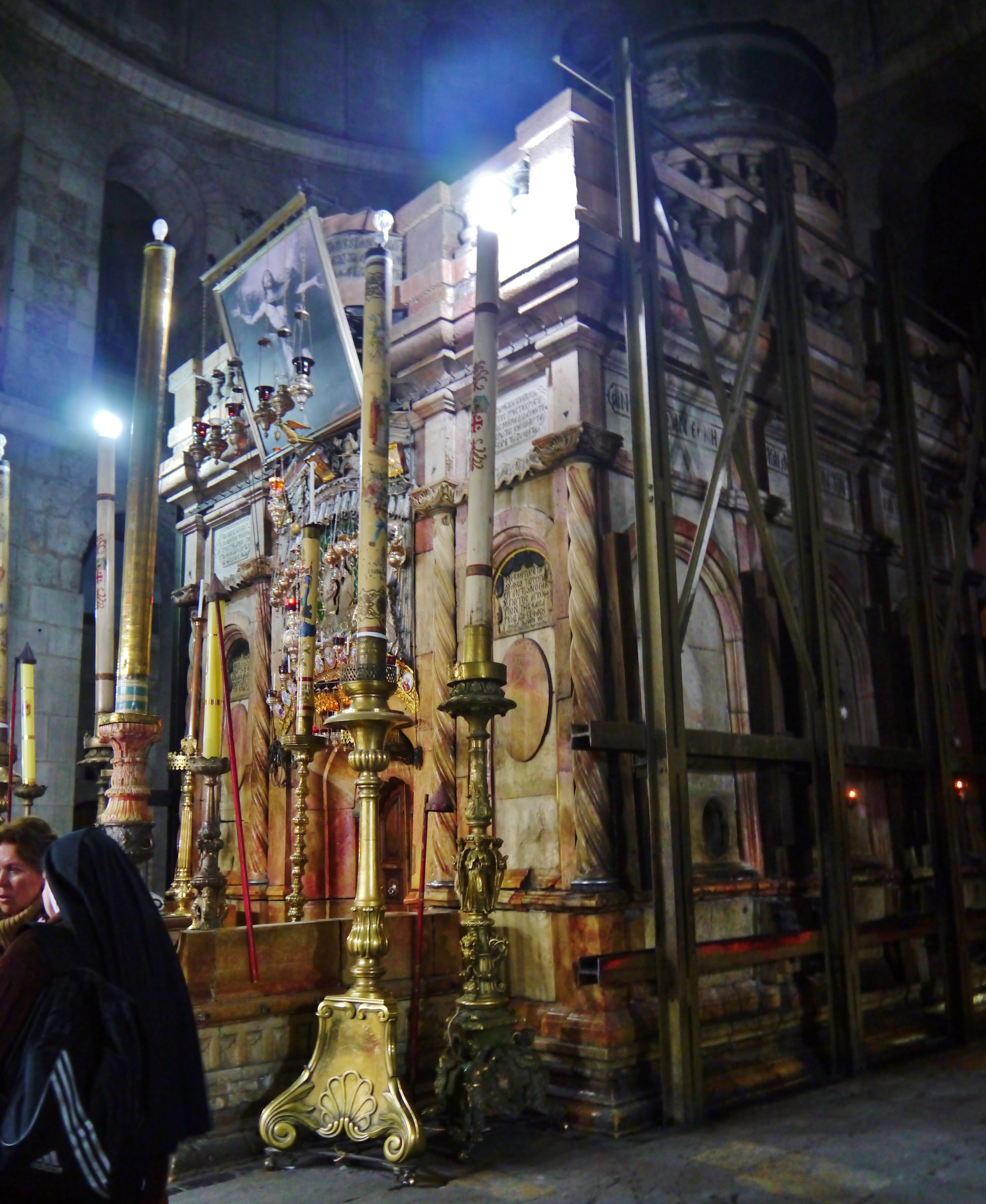 the Tomb of Jesus Christ inside the Church of the Holy Sepulchre, Jerusalem, Israel